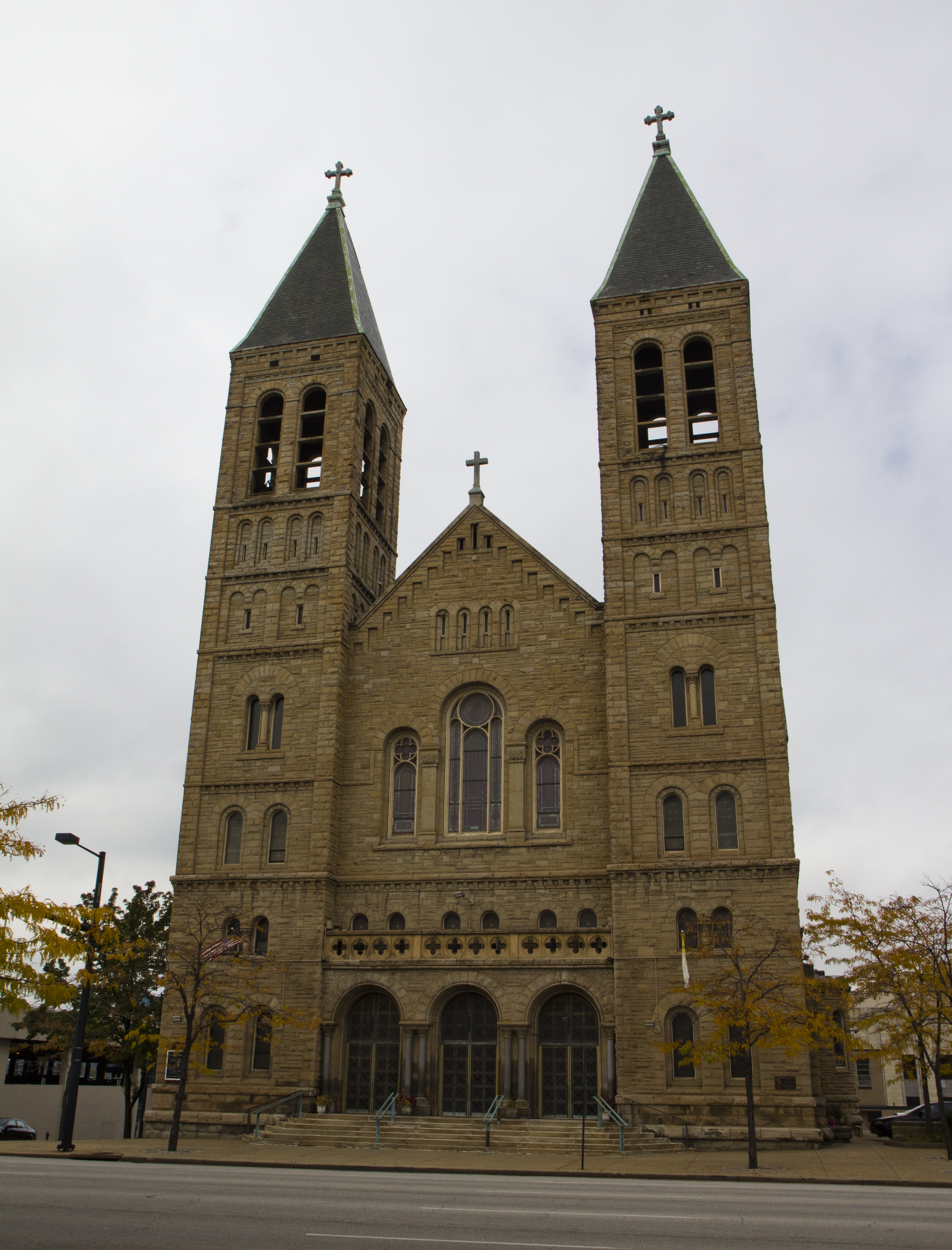 St. Bernard's Church, 44 University Avenue, Akron, Summit County, Ohio - view west showing east face.